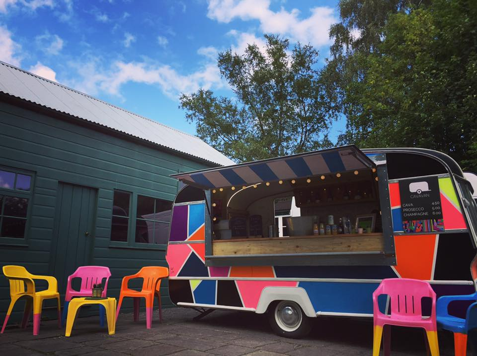 Cavavan